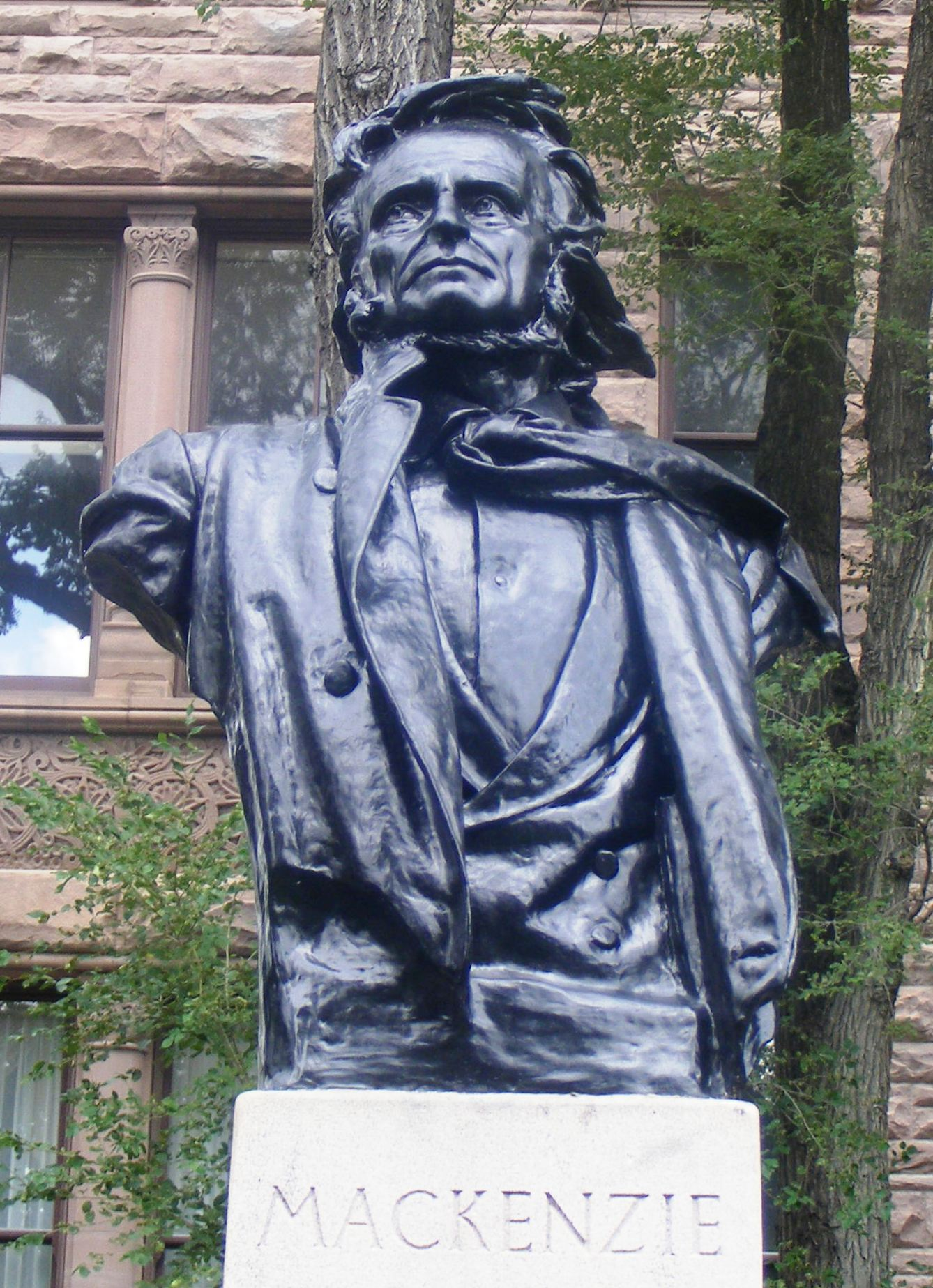 Statue of William Lyon Mackenzie outside the Legislative Assembly of Ontario in Toronto